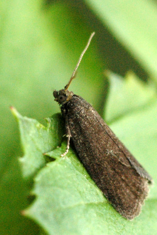 Picture taken in Commanster, Belgian High, Ardennes. Species: Aphelia viburnana